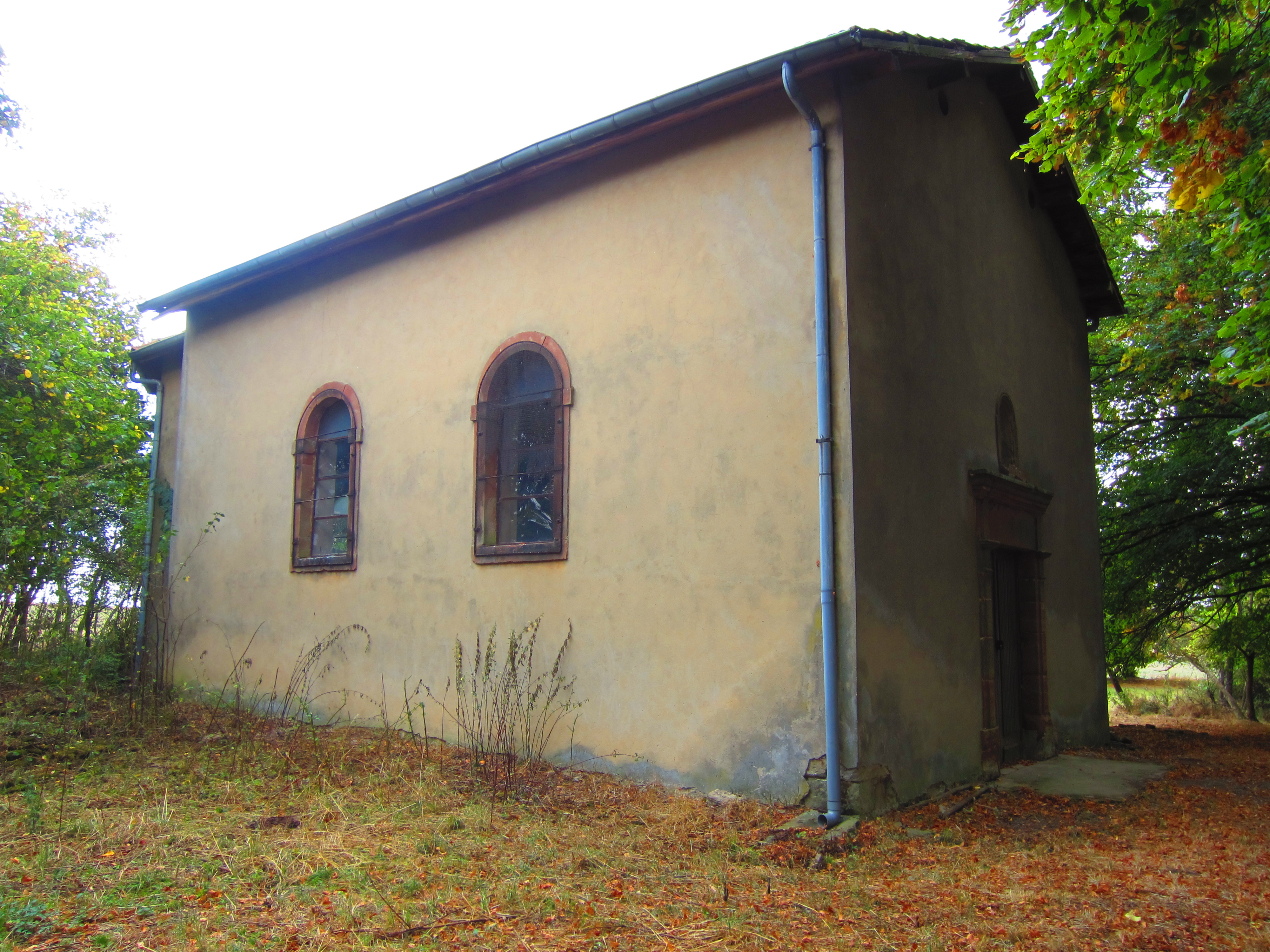 Denting chapel